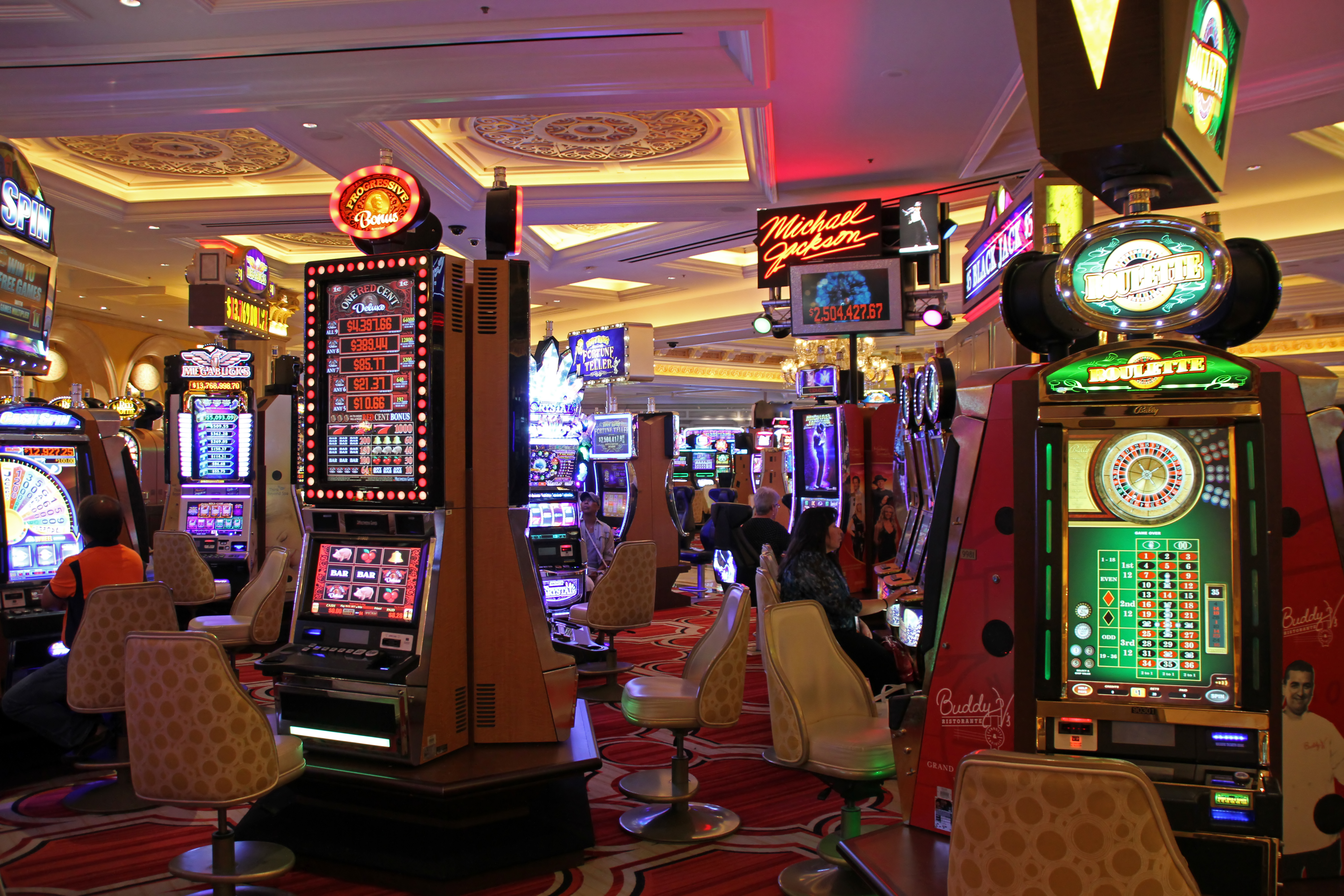 The Slots 2